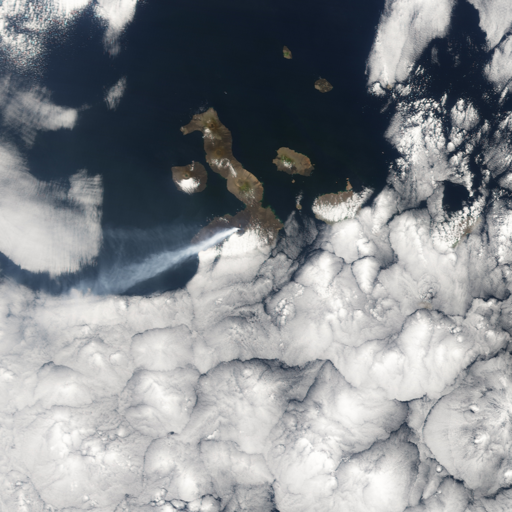 On October 22, 2005, the Sierra Negra Volcano on Isla Isabela in the Galapagos Islands began erupting, sending ash as high as 12,800 meters (42,000 feet), according to the U.S. Geological Survey. On October 25, the Moderate Resolution Imaging Spectroradiometer (MODIS) flying onboard the Terra satellite captured this image.